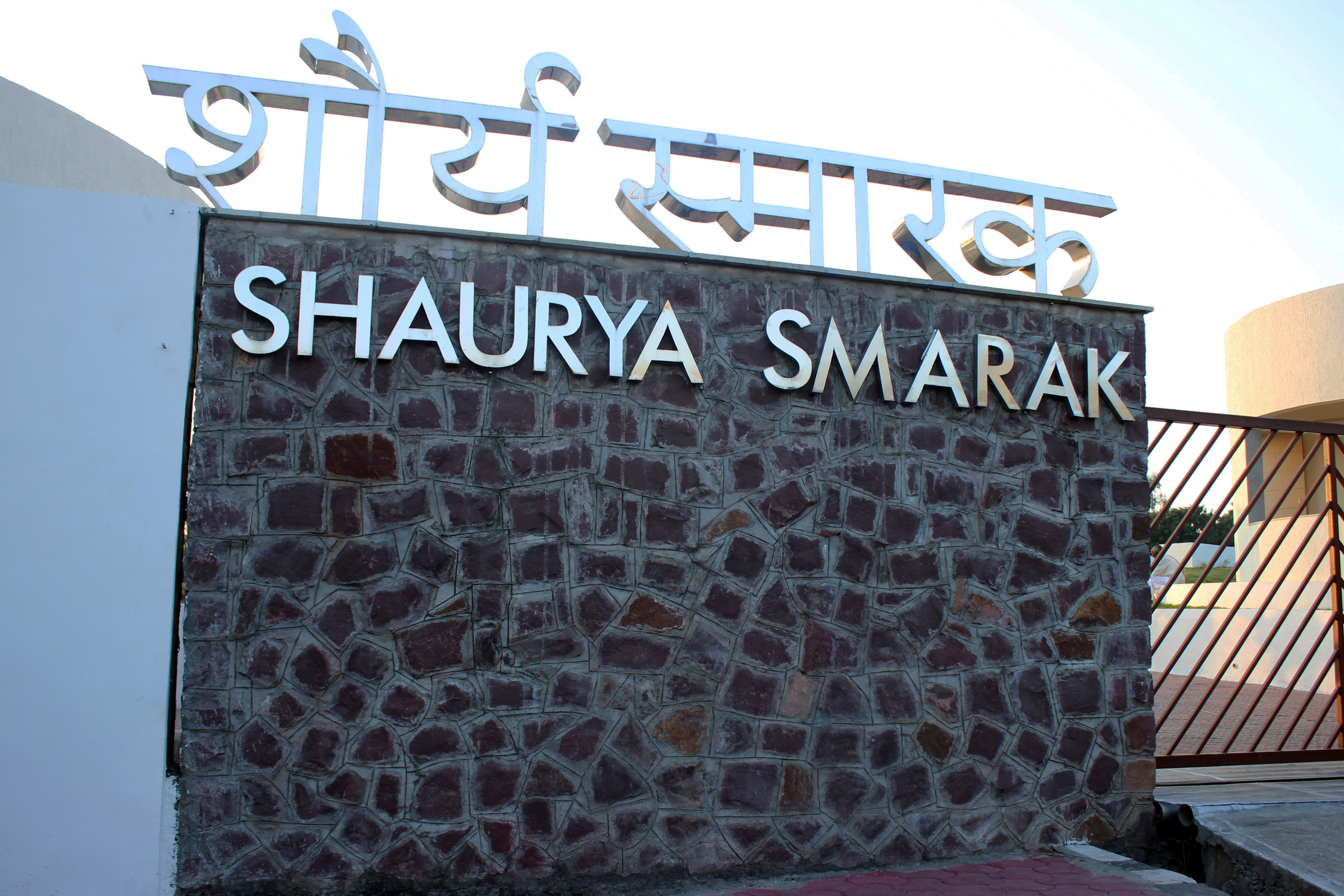 Shourya Smarak Entrance Gate at Bhopal